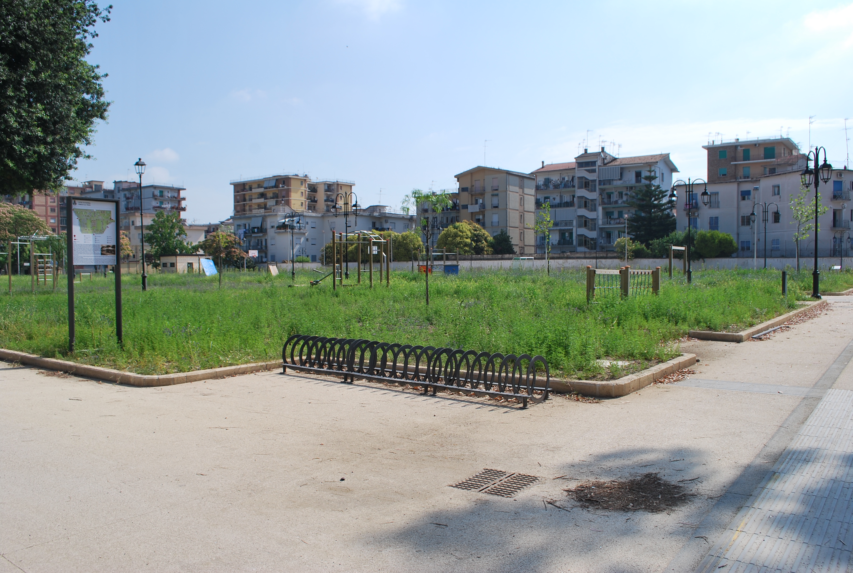 Picture about Pozzi Park, Aversa.